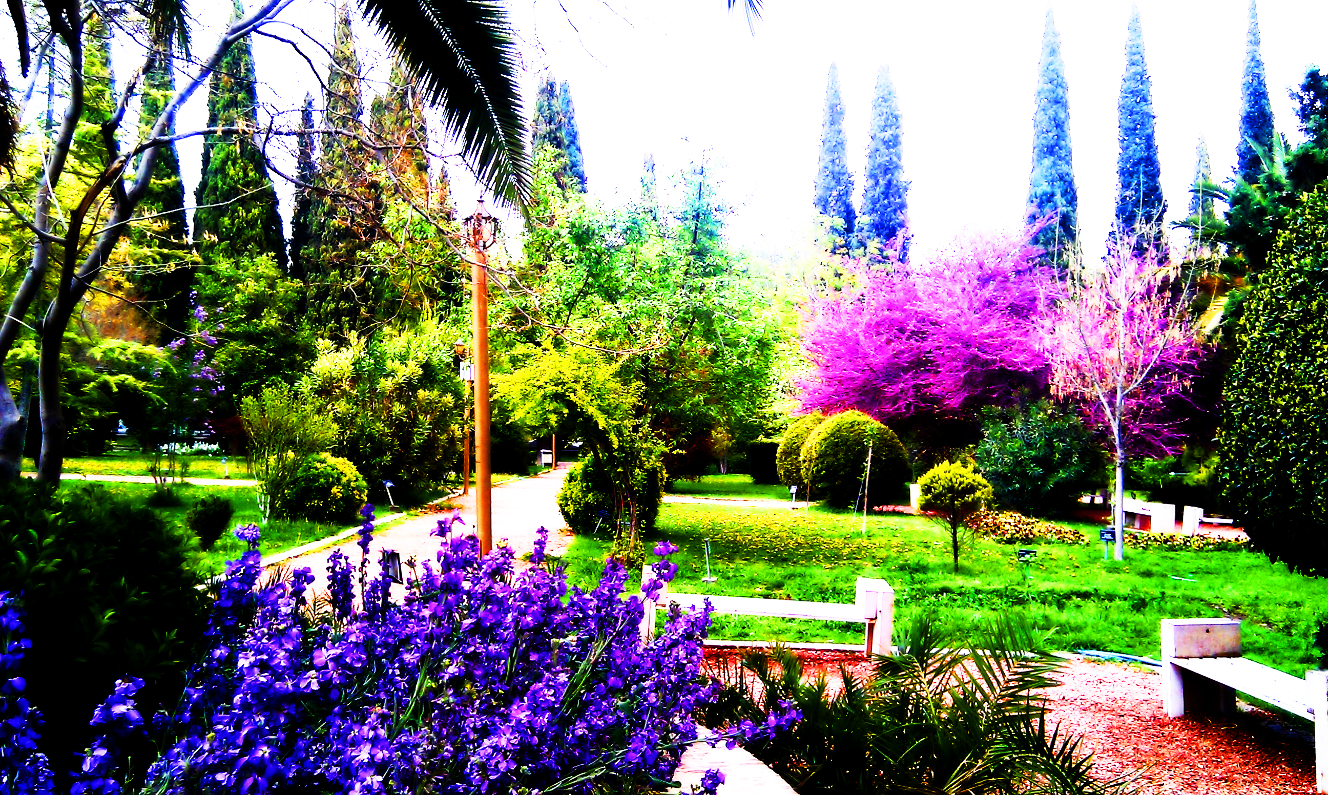 Eram Garden, Shiraz, Iran